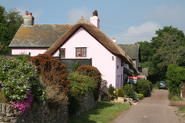 Luppitt: cottages at Beacon. Looking east-north-east. The row includes a converted chapel and a further structure beyond is undergoing a complete re-build